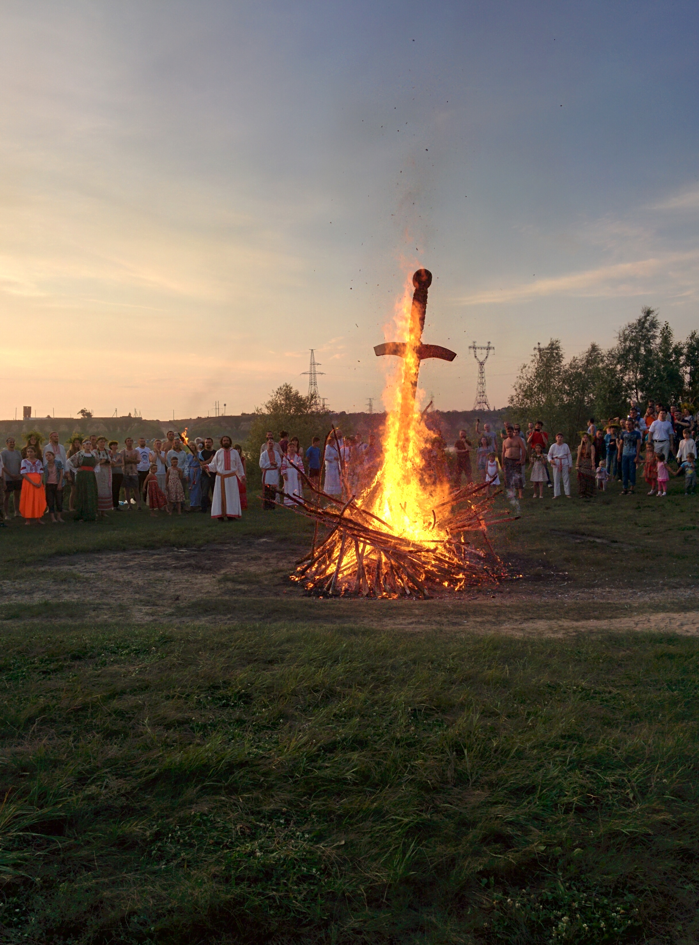 This photo has been taken in the country: Russia